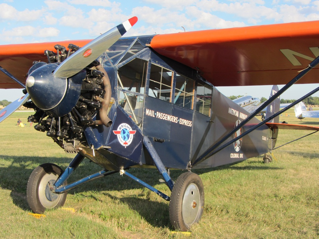 Fairchild FC-2